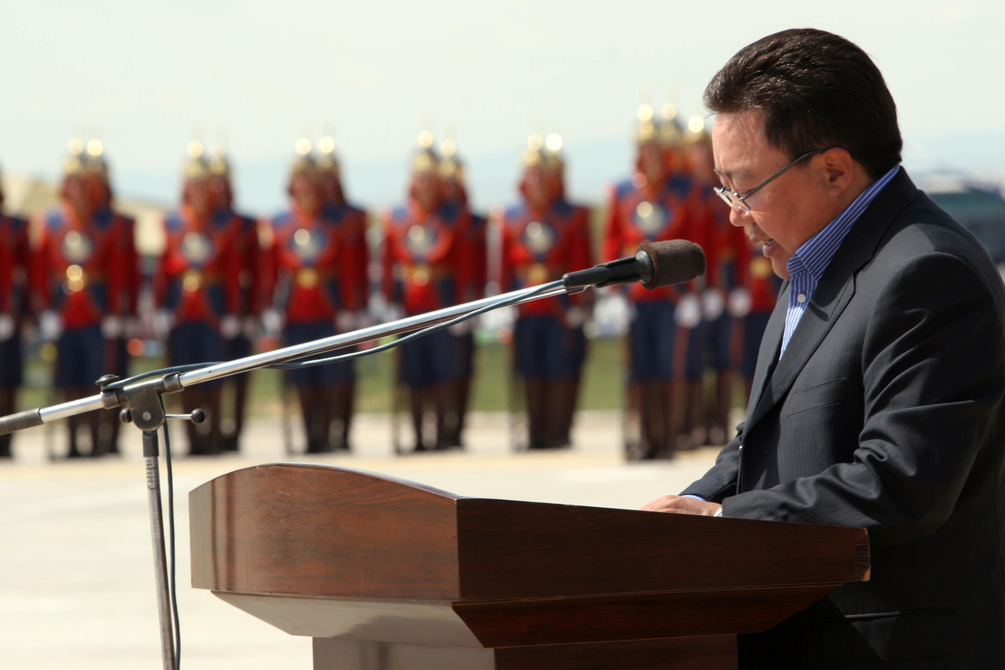 Mongolian President Ts. Elbegdorj speaks during the opening ceremony for Khaan Quest 2009 at Five Hills Training Facility, Mongolia, Aug. 15, 2009.